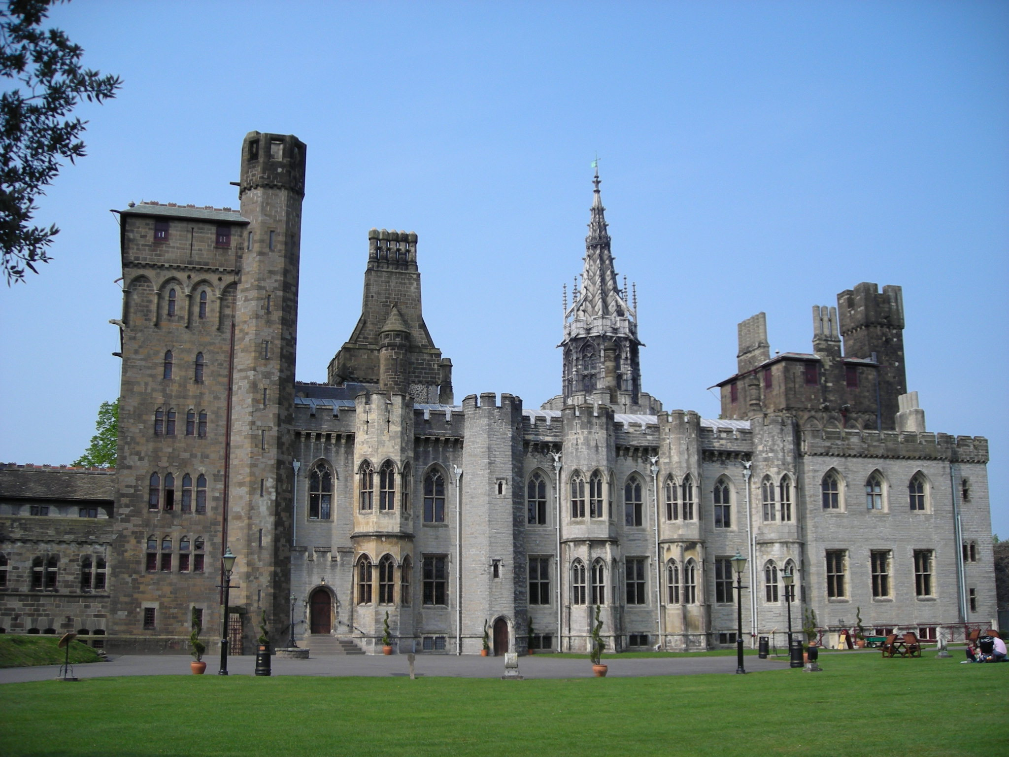 Cardiff Castle spring 2007